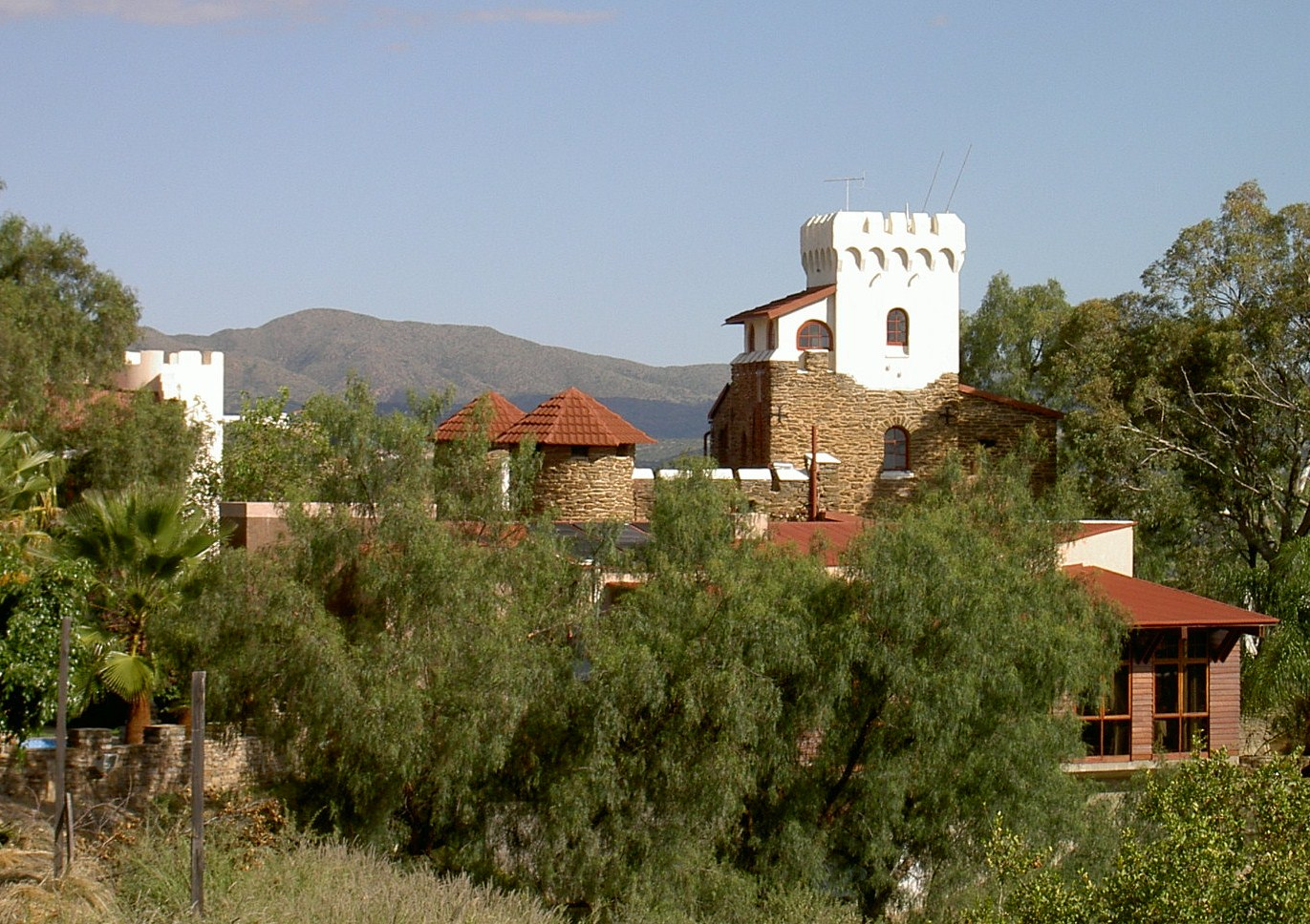 Heynitzburg, now private operated hotel near Windhoek, Namibia